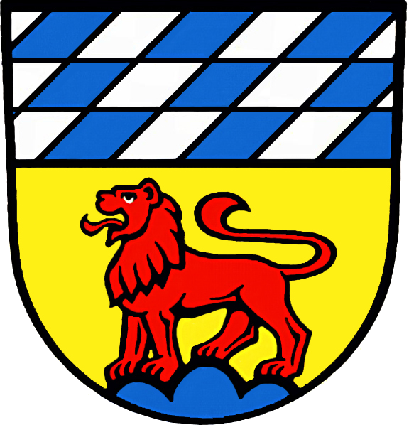 of the municipality of Löwenstein